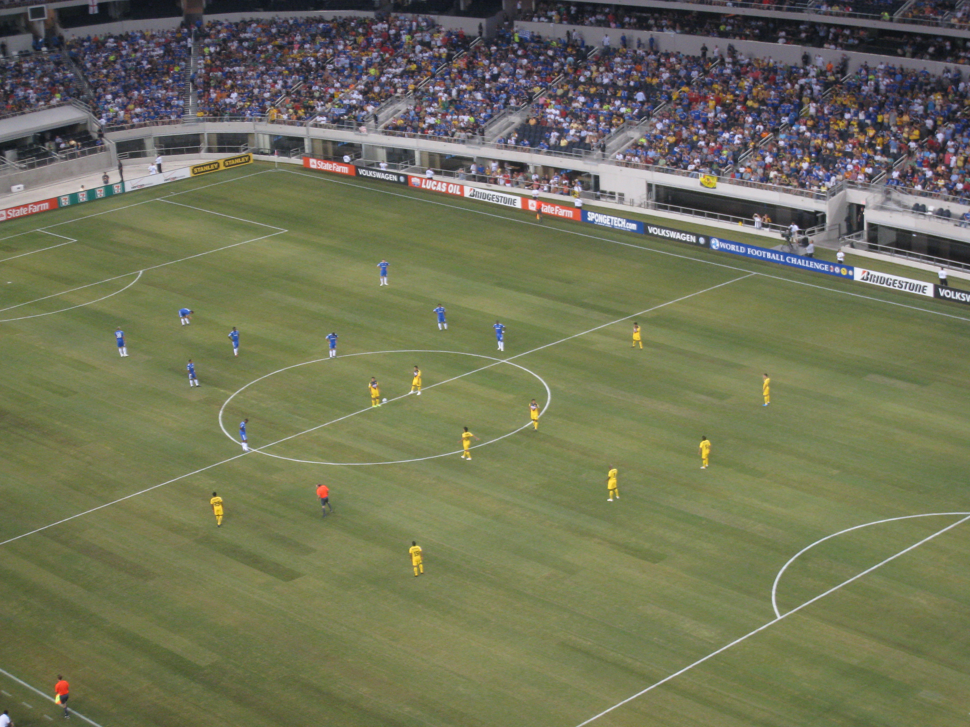 Cowboys_stadium_world_football_challenge_2009 chelsea vs club america